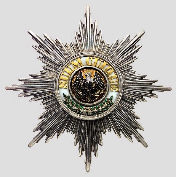 Order of the Black Eagle with the motto SUUM CUIQUE (idiomatically, "to each according to his merits") in the medallion's center